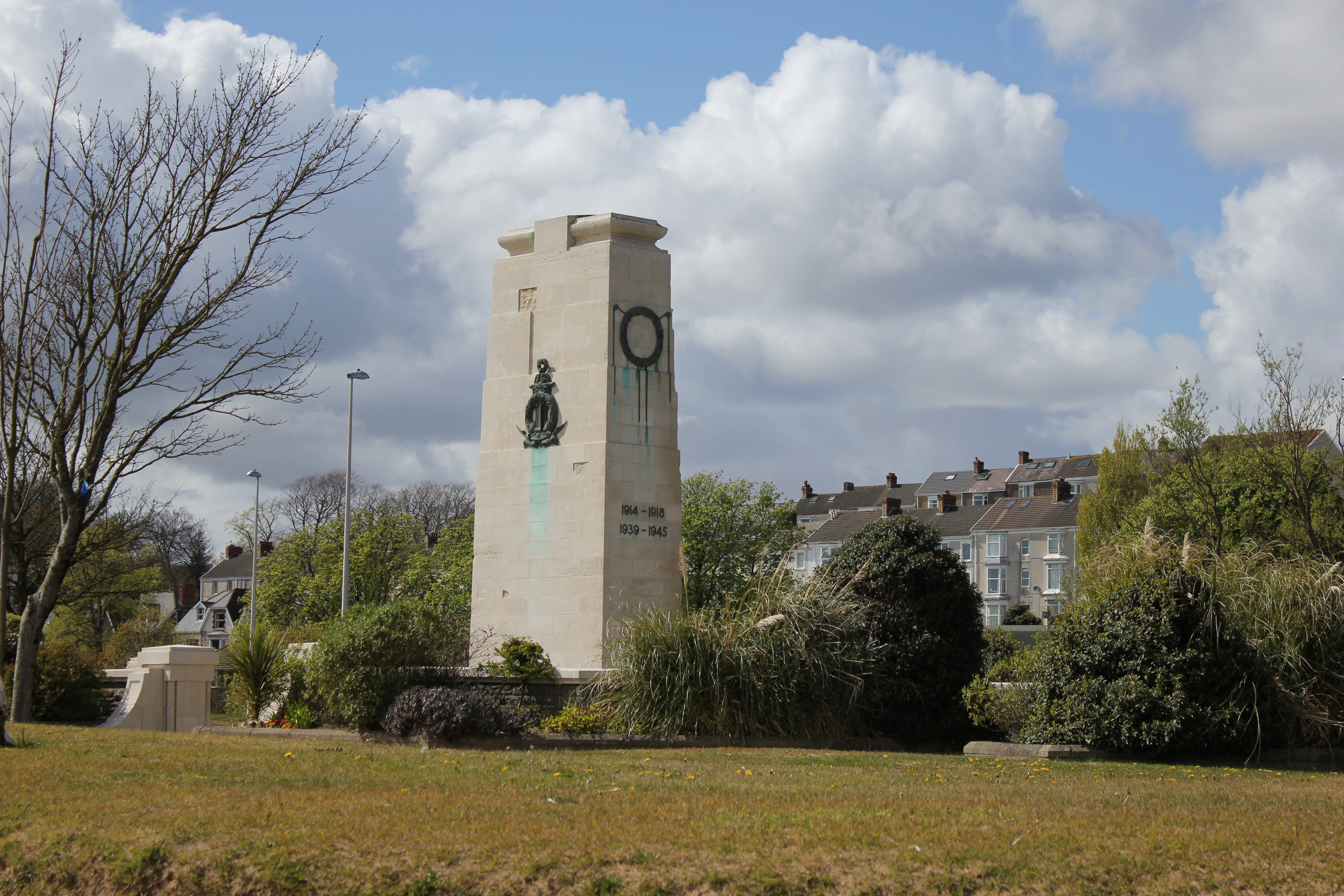 Cenotaph War Memorial on the Esplanade, Mumbles Road, Swansea, Wales. Unveiled in 1923, the memorial is based on Edwin Lutyens’ The Cenotaph, Whitehall in London. Royal Commission on the Ancient and Historical Monuments of Wales